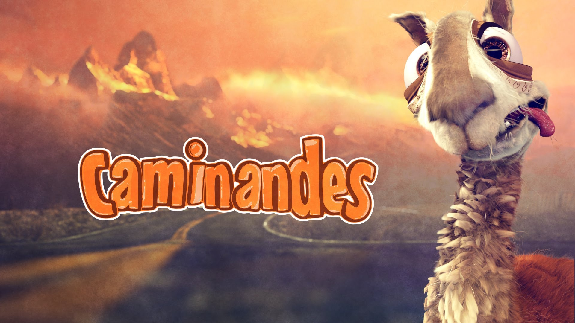 Cover thumbnail of the free/libre Blender 3D animated short series Caminandes in the first episode Llama Drama.